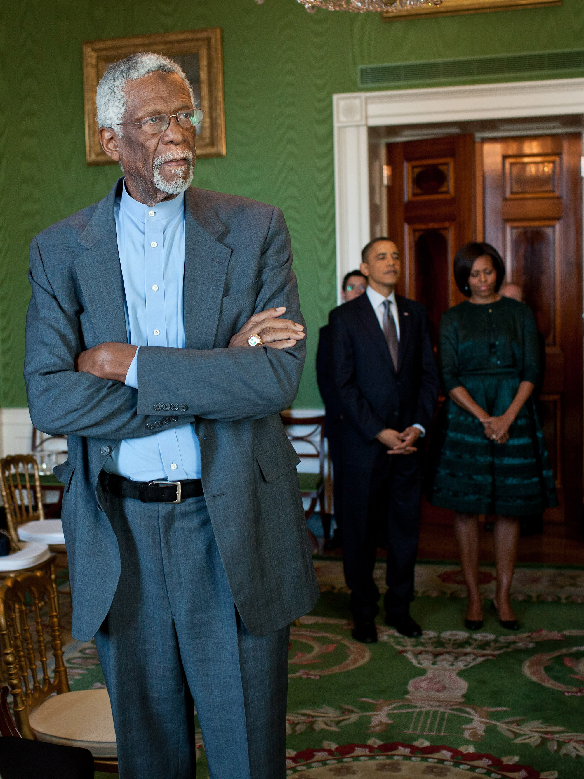 American former basketball player, Bill Russell, waiting in the Green Room of the White House. He is about to receive the 2010 Presidential Medal of Freedom. Barack and Michelle Obama are standing in the background. (Official White House Photo by Pete Souza).